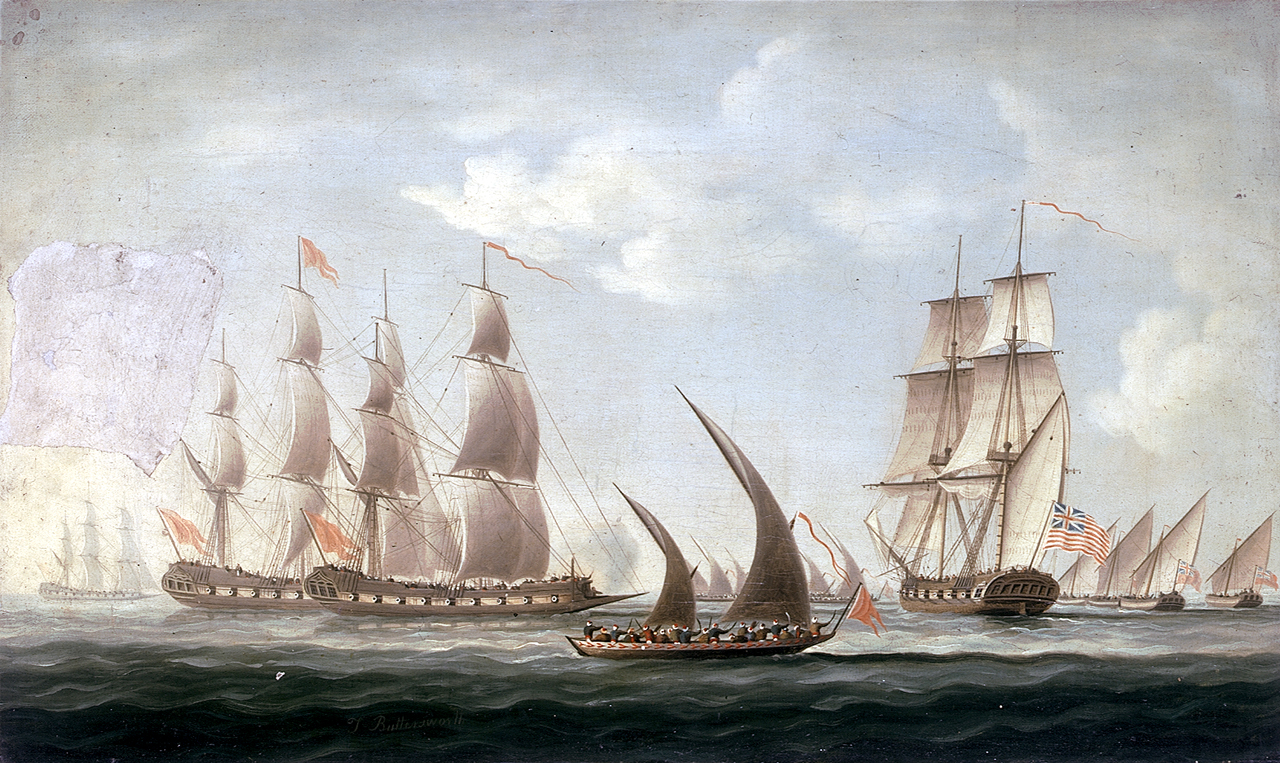 Painting: 330 mm x 545 mm; Frame: 392 x 605 x 35 mm